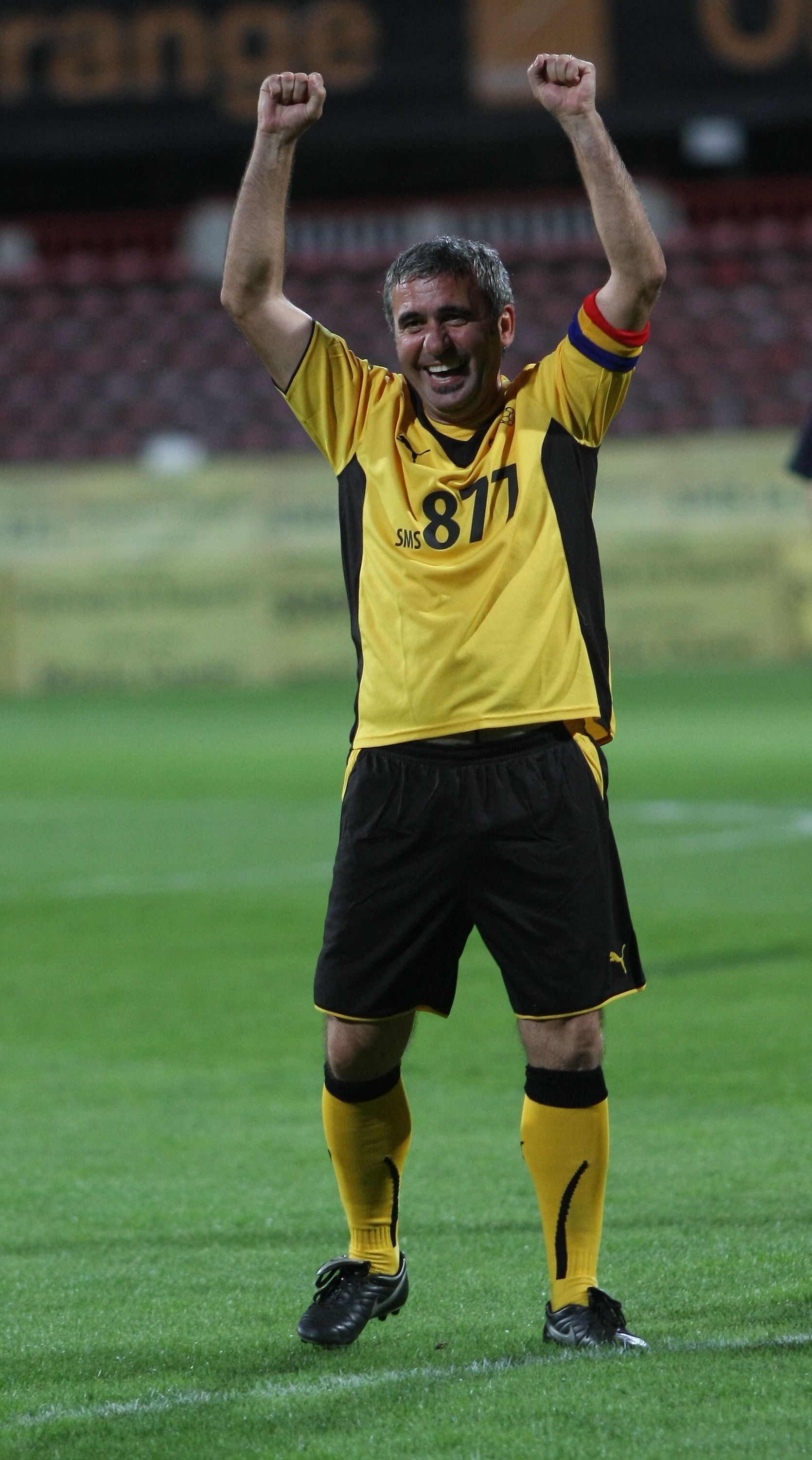 Gheorghe Hagi, the best Romanian football player.